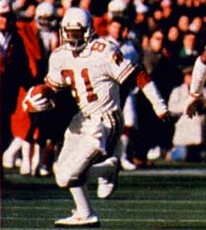 St. Louis Cardinals wide receiver Roy Green running the ball down the field against the New England Patriots during a December 2, 1984 away game at Sullivan Stadium.